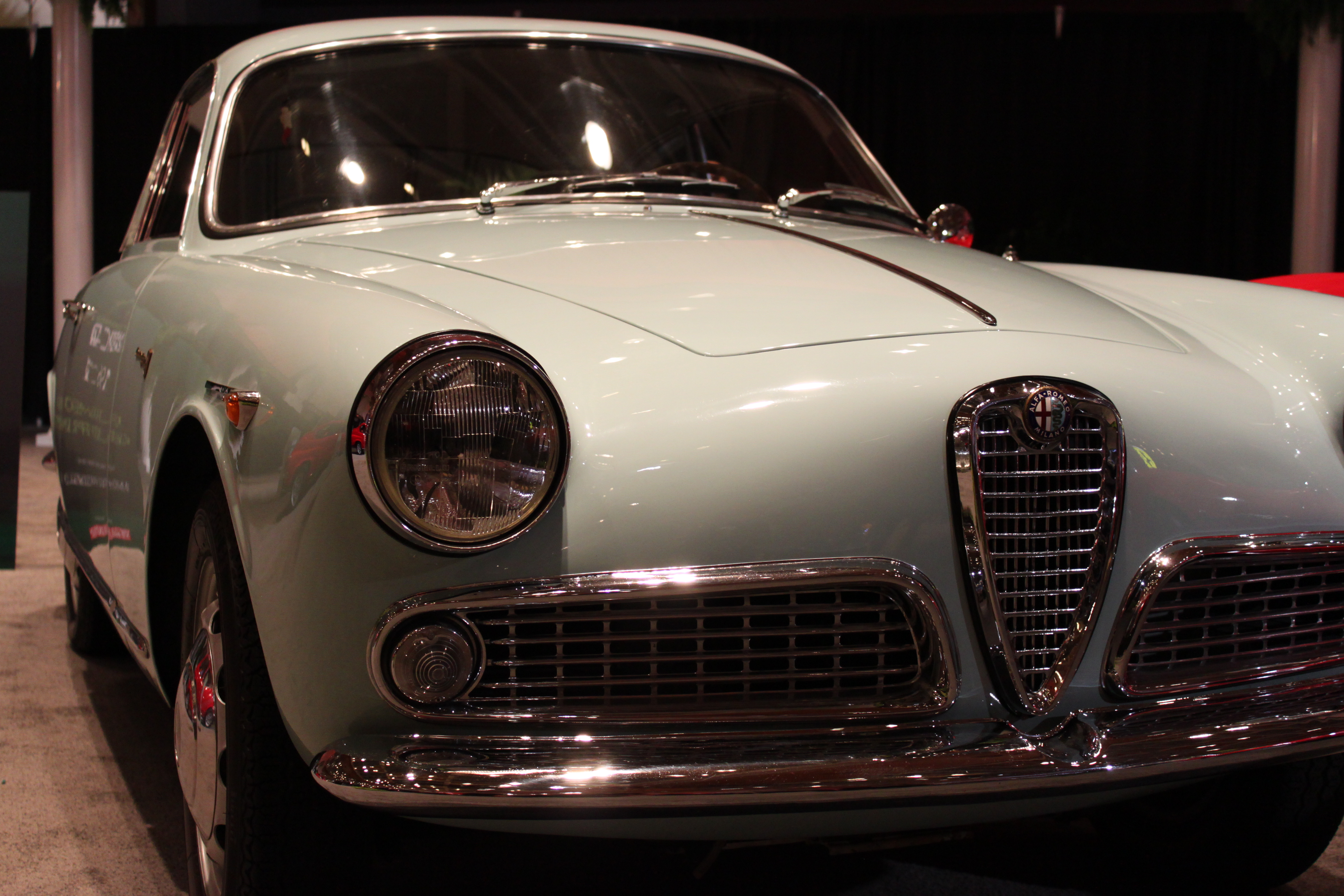 I'm not entirely certain that it's actually a Giulietta Sprint, if anyone knows for sure, I'd appreciate any clarification